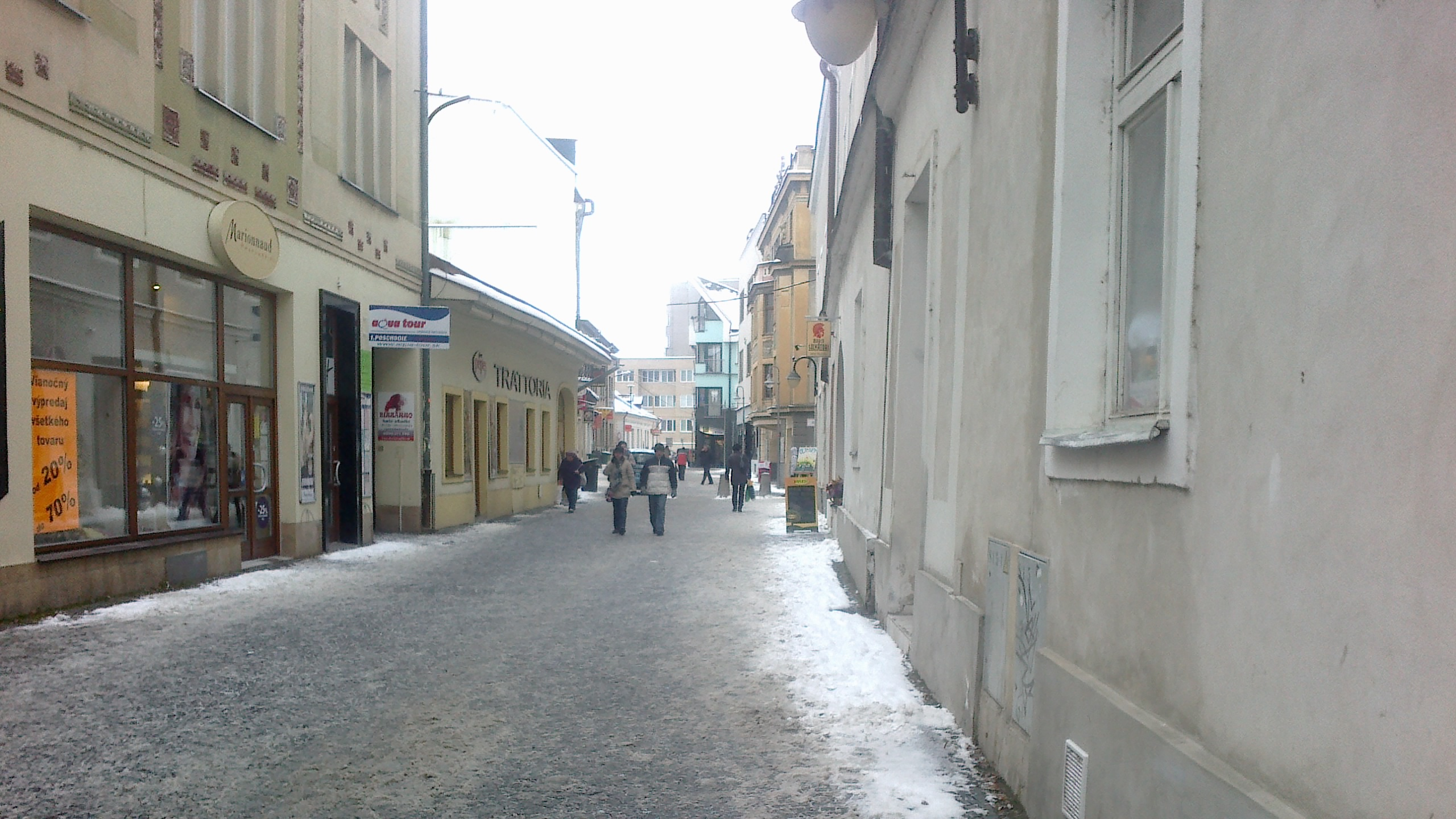 This is a street "Vurumova ulica"